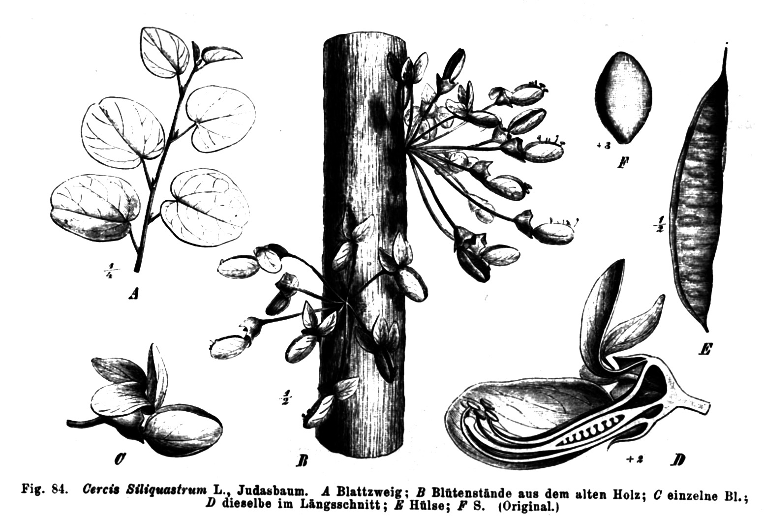 Illustration from book